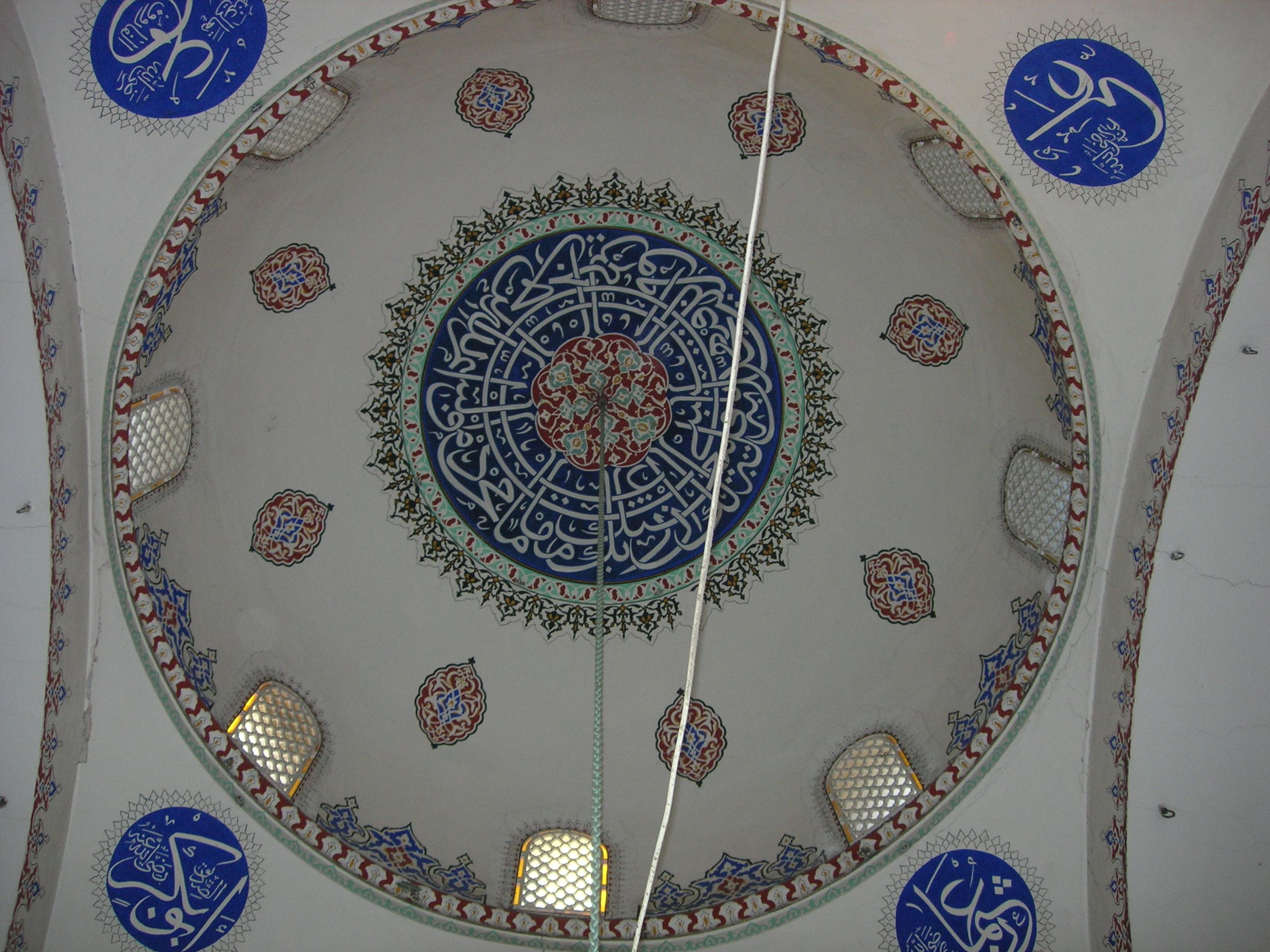 The dome of the former Church of the monastery of Hagios Andreas en te Krisei (today mosque of Koca Mustafa Pasha) in Istanbul